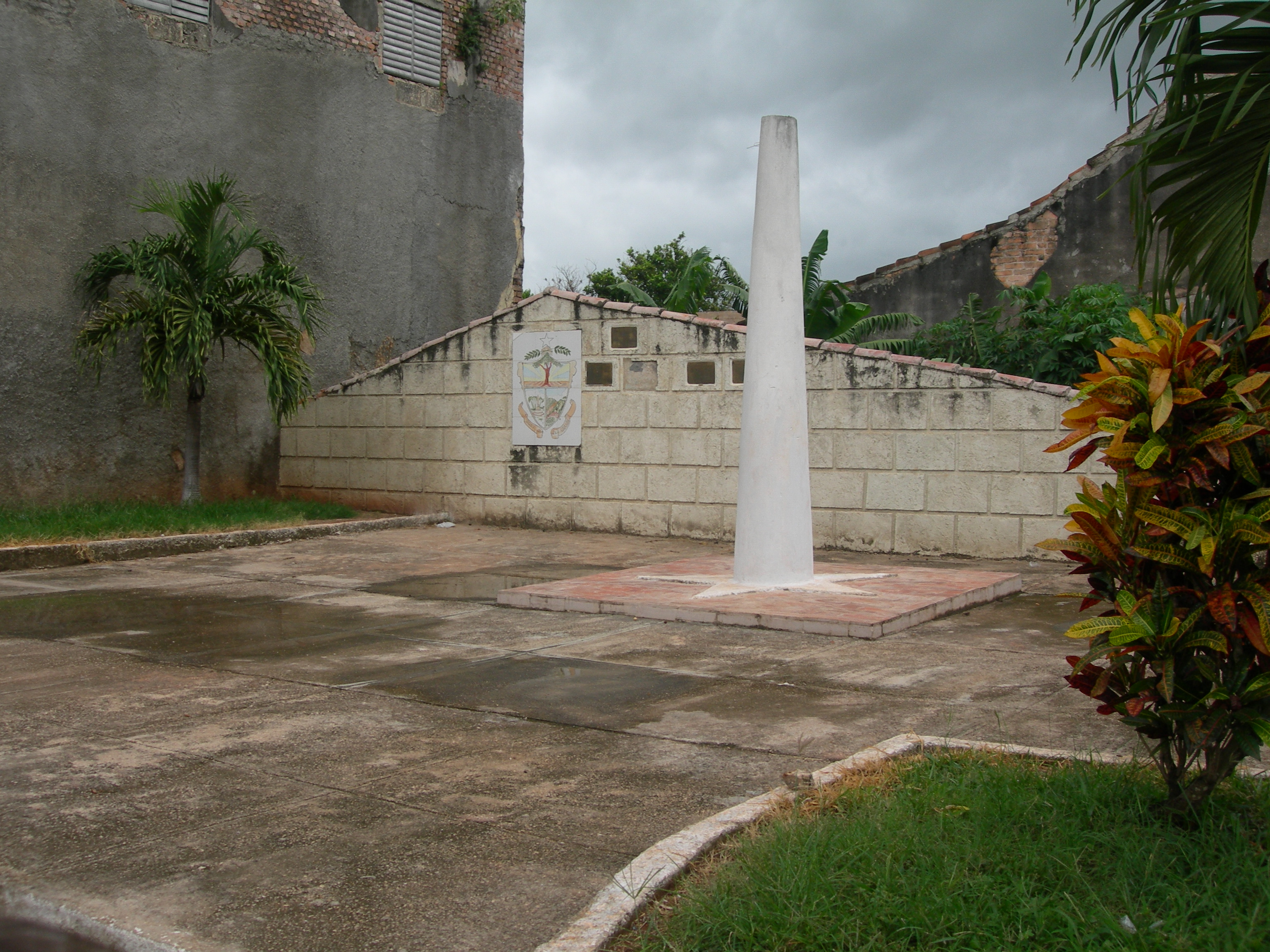 Liberator's square in Jagüey Grande (Cuba).